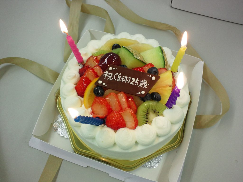 Taken with picplz.